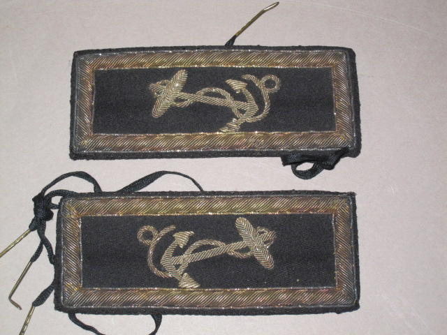 Accession: 67-165-G Uniform, Shoulder Straps, Passed Midshipman. Shoulder Straps used by Passed Midshipman T.R. Young on the USF Brandywine. The shoulder straps were tied on to the uniform coat with shoe strings. The straps are circa 1860's. Collection of Curator Branch Naval History and Heritage Command.